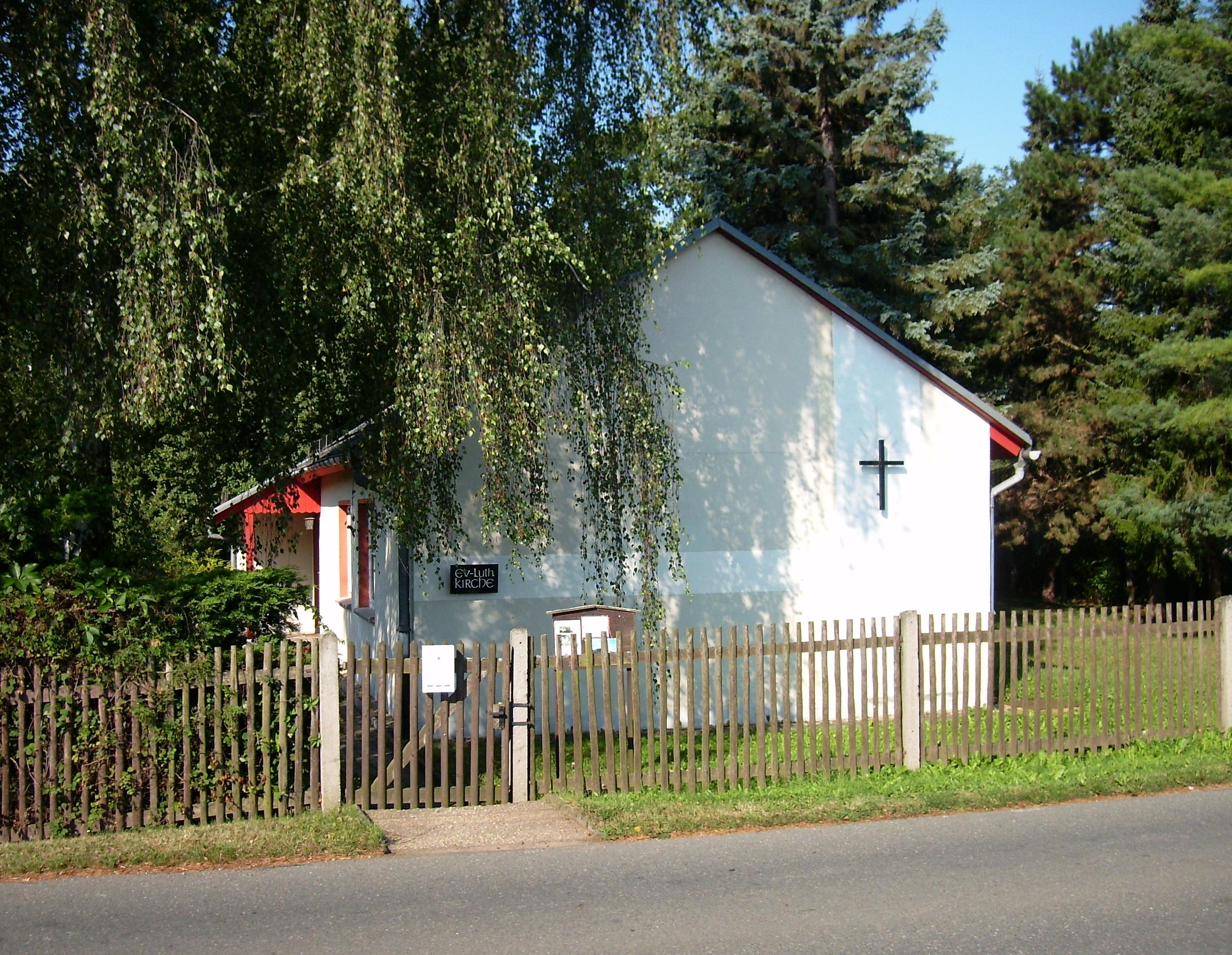 Lutheran church in Hartmannsdorf near Eisenberg (district of Saale-Holzland-Kreis, Thuringia)